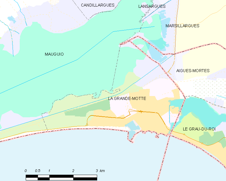 Map commune FR insee code 34344.png - La Grande-Motte